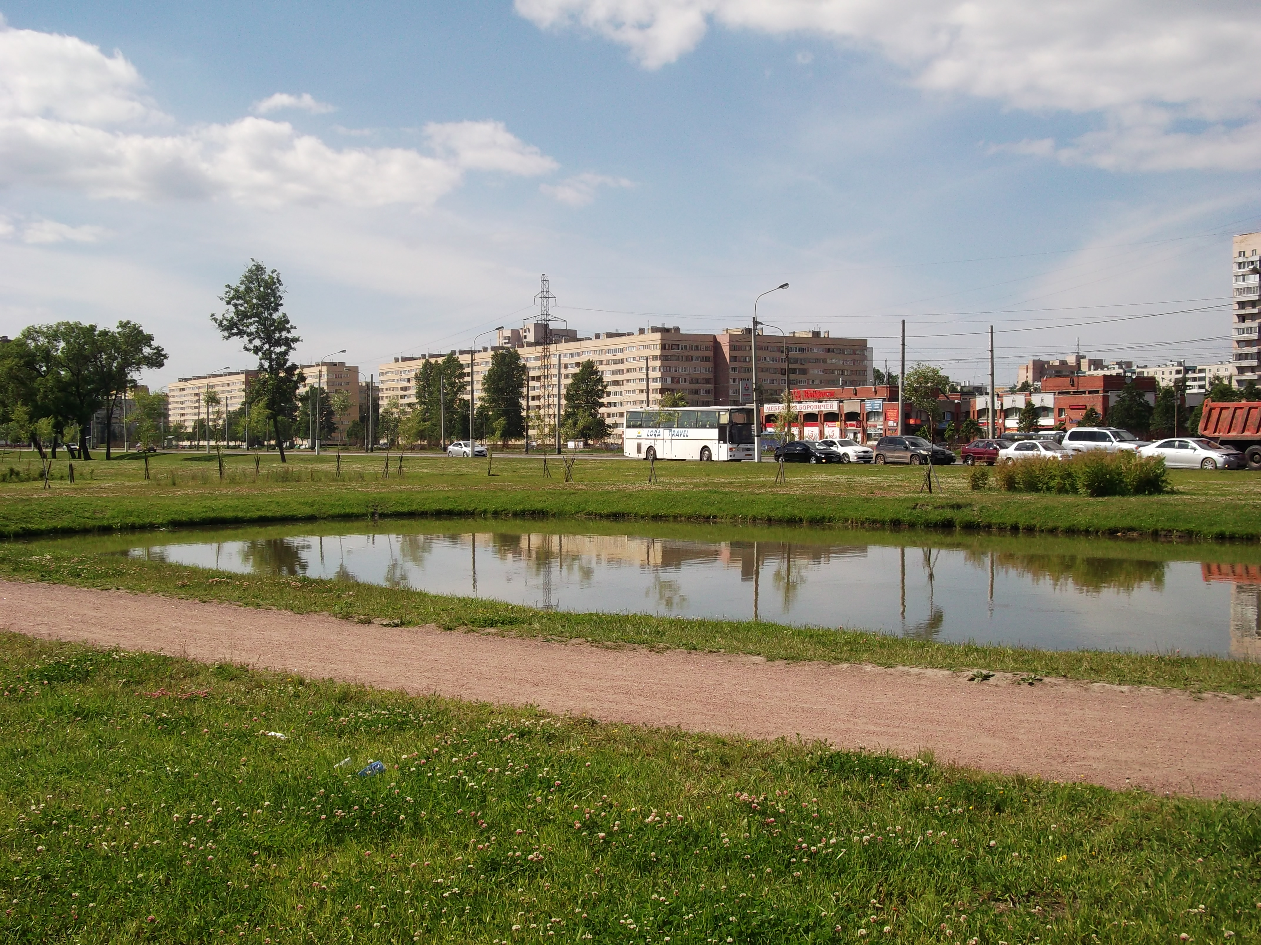 Peterhofskoe Shosse